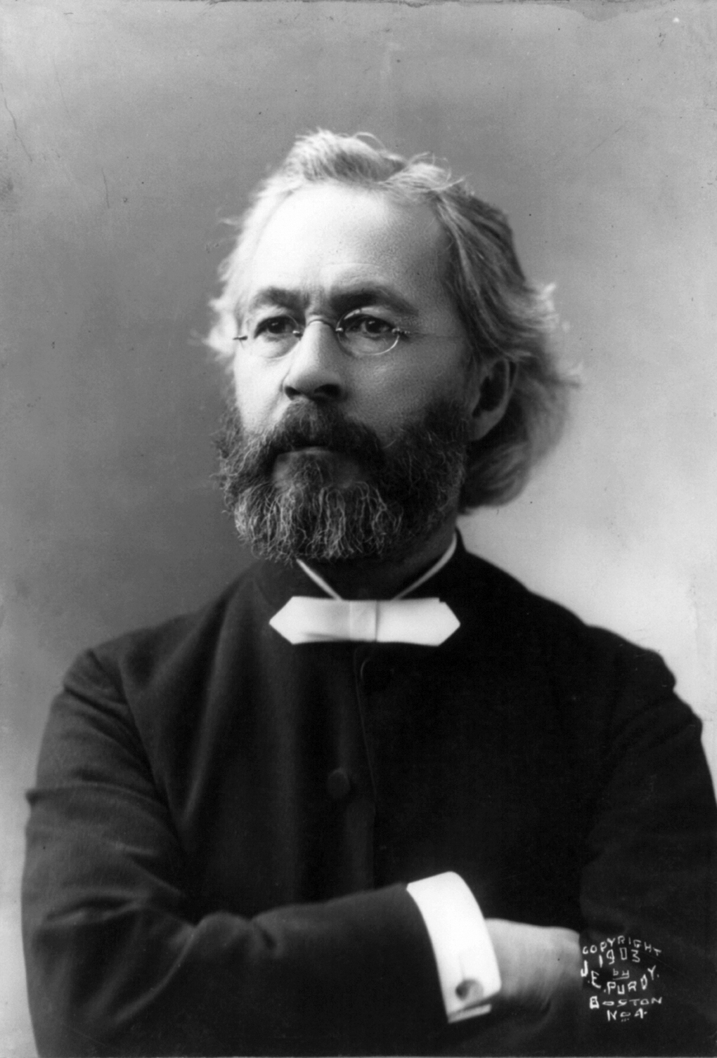 Charles Henry Parkhurst, American clergyman and social reformer